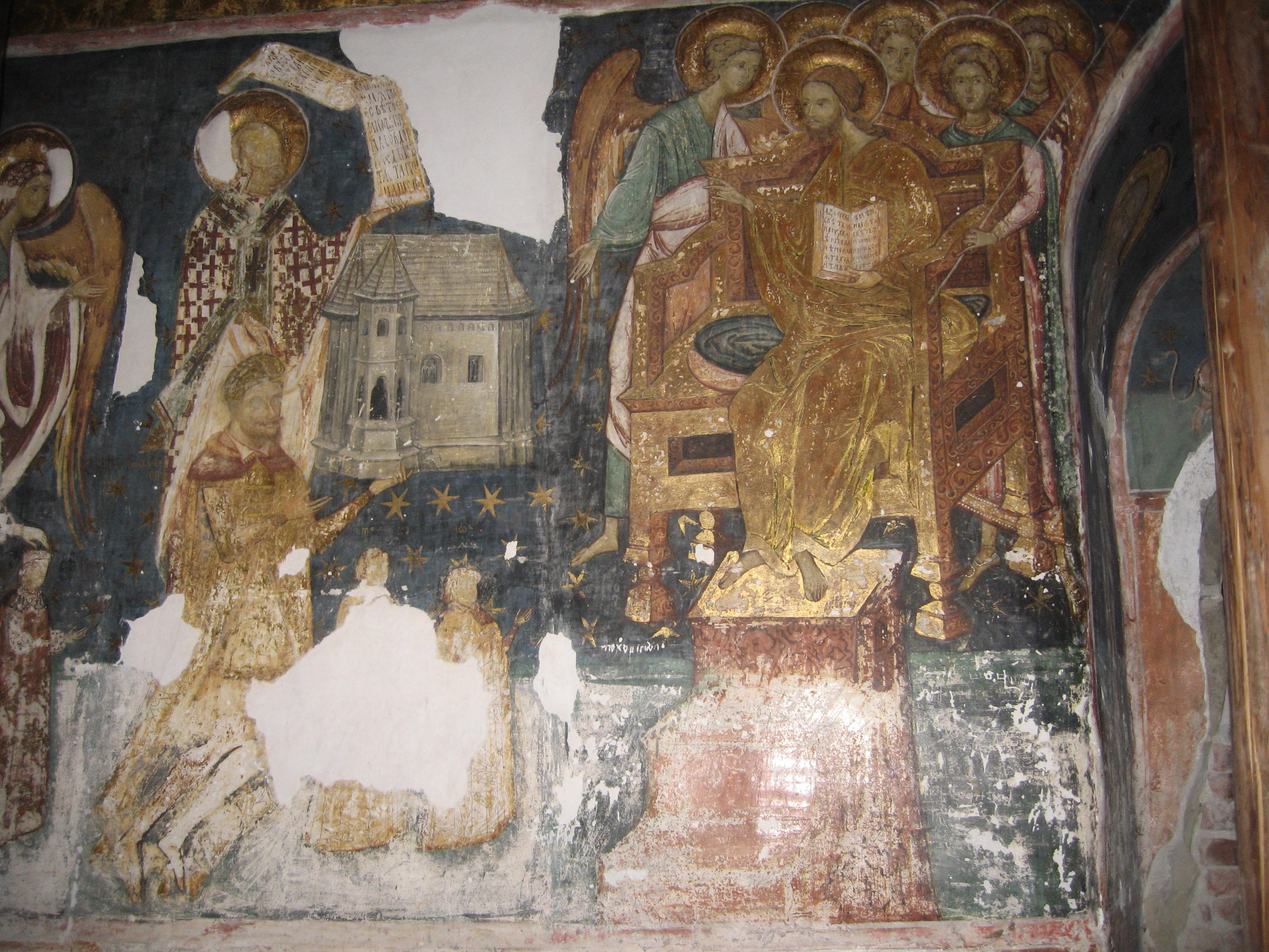 Biserica Sfântul Nicolae din Bălineşti